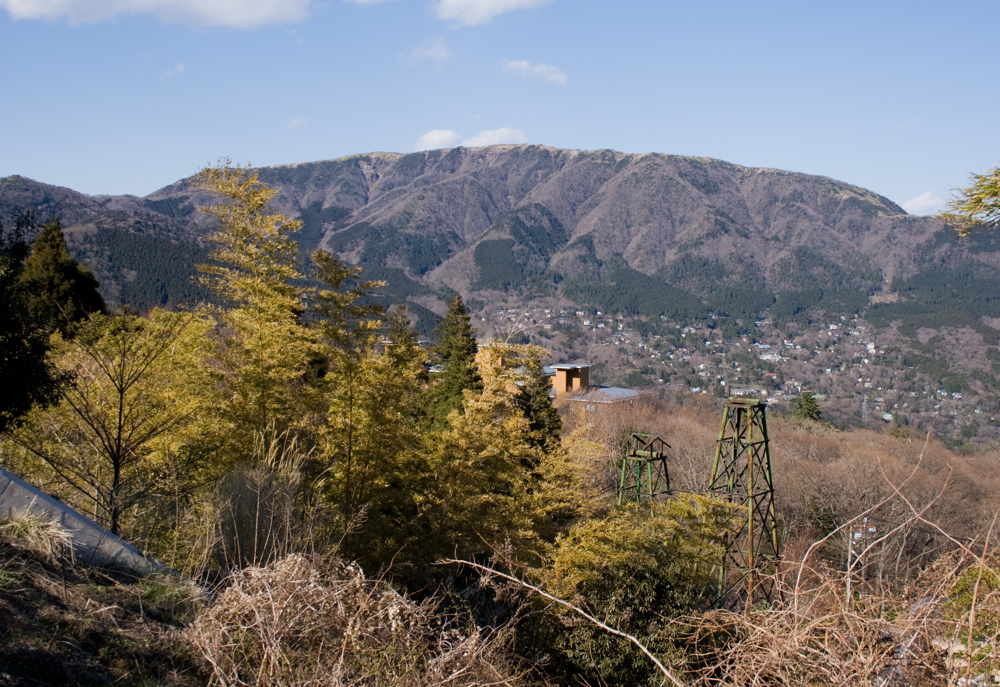 Mt.Myojingatake, Hakone town, Kanagawa pref., Japan.